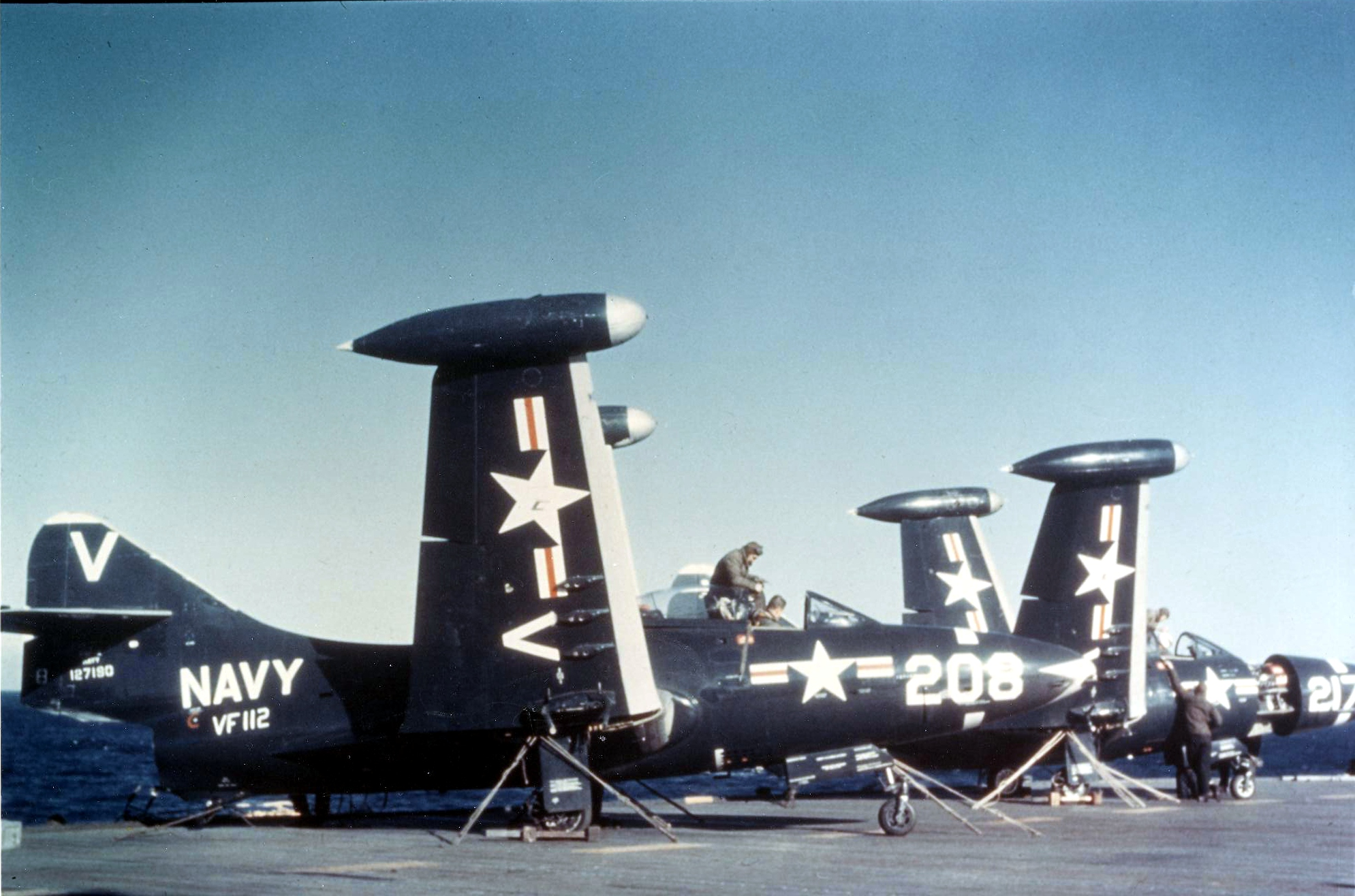 A U.S. Navy Grumman F9F-2B Panther (BuNo 127190) of Fighter Squadron VF-112 "Fighting Twelve" aboard the aircraft carrier USS Philippine Sea (CV-47). VF-112 was assigned to Carrier Air Group 11 (CVG-11) aboard the Philippine Sea for a deployment to Korea from 5 July 1950 to 26 March 1951. The F9F-2B 127190 was sold to Argentina in December 1958 (Argentine navy serial "0423").